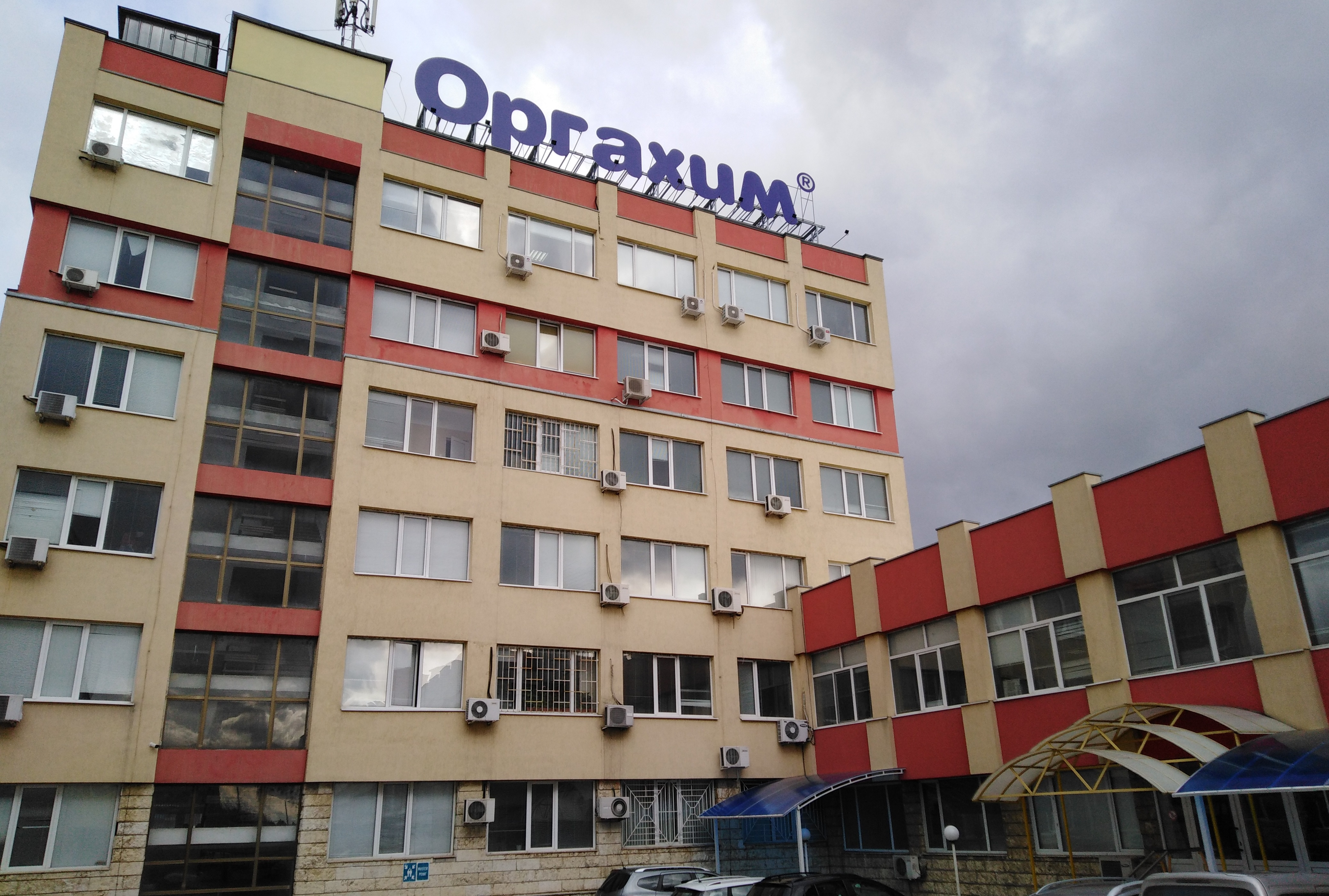 Orgachim's headquarters in Ruse, Bulgaria.